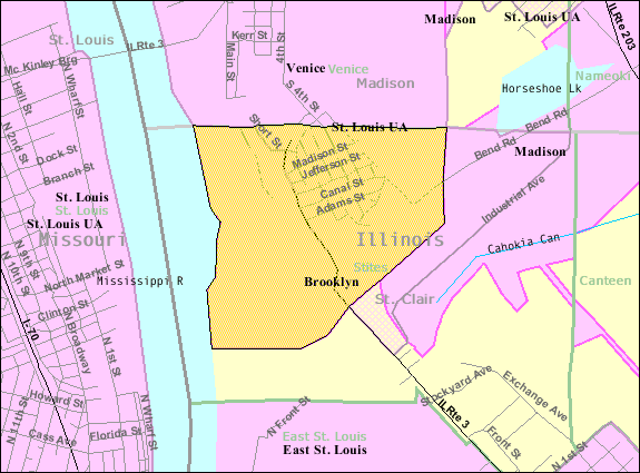 U.S. Census 2000 reference map for Brooklyn